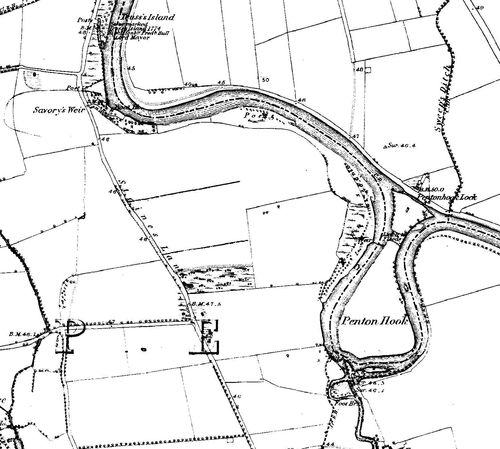 Sheet 024Ashford, Chertsey, Egham, Englefield Green, Laleham, Littleton, Lyne, Shepperton, Staines, Stroude, Thorpe, Thorpe Green, Thorpe Lea, Trumps Green, Virginia Water, TW15 2, KT16 9, TW20 9, TW20 0, TW18 2, TW17 0, KT16 0, TW17 9, TW18 3, GU25 4, TW20 8